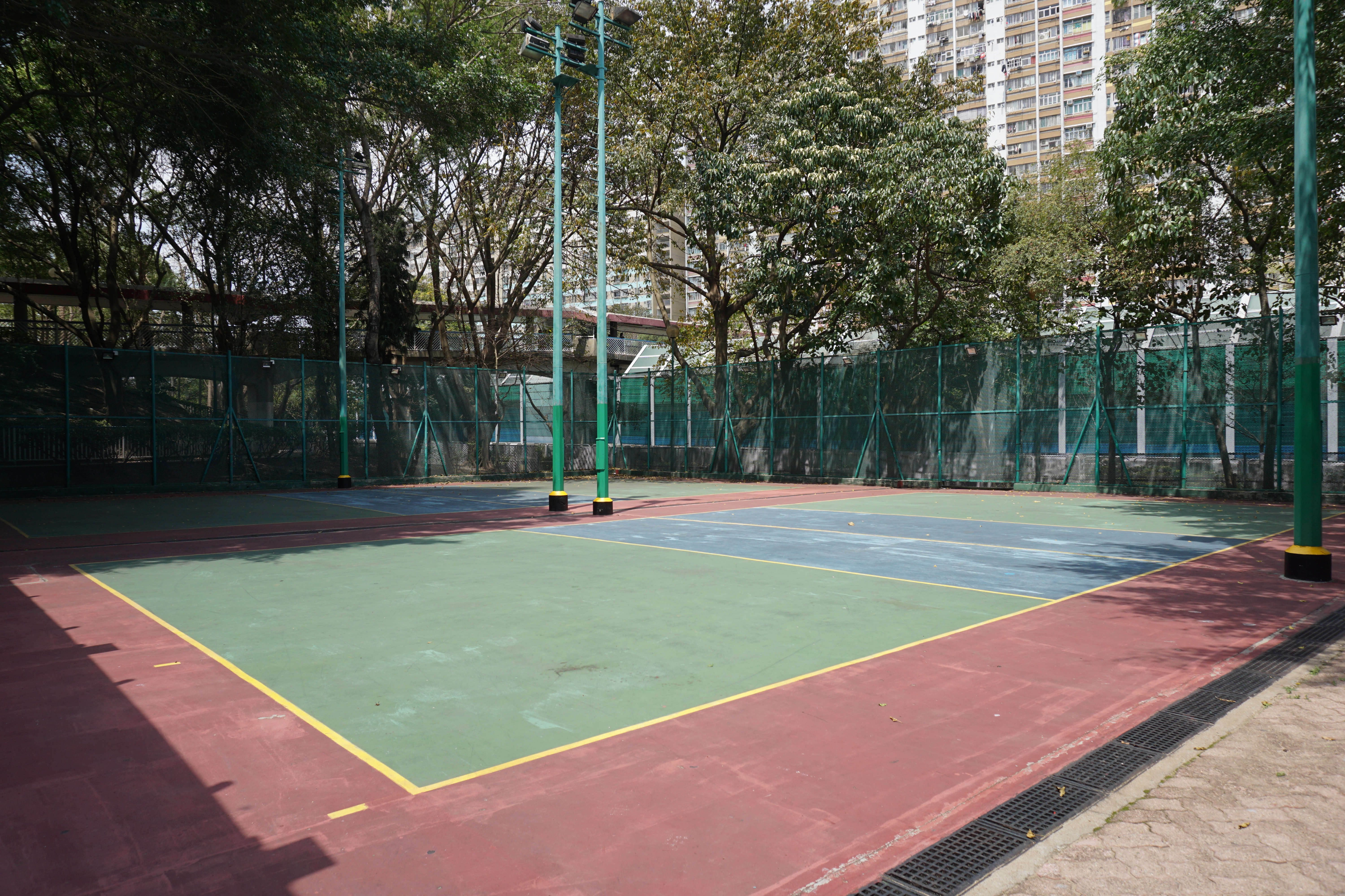 Tai Ping Estate in Sheung Shui, Hong Kong.